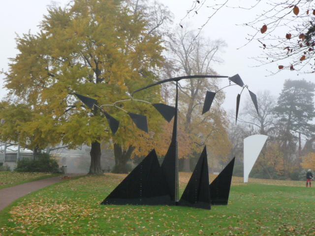 Fondation Beyeler in Riehen, Basel, garden. Sculptures: Ellwwoth Kelly and Alexander Calder